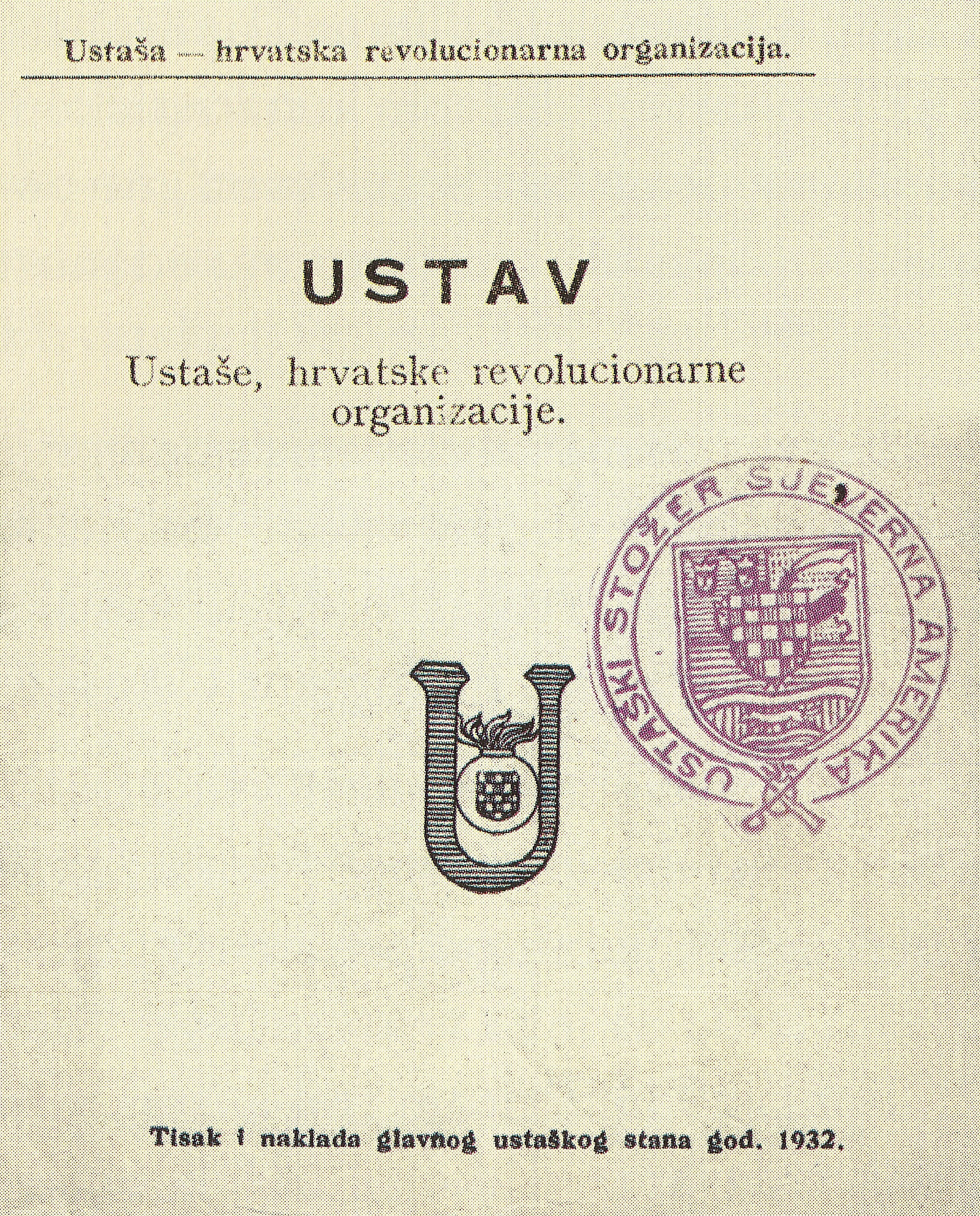 Constitution of the croatian Ustasha. Zagreb, 7th January 1929.